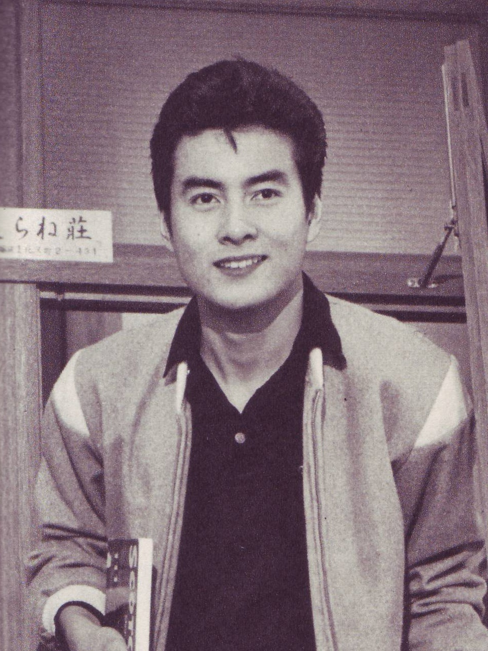 Hideki Takahashi. taken in 1962.